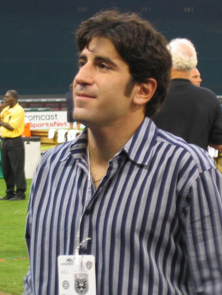 Photo of Alecko Eskandarian taken by me at a D.C. United game at Robert F. Kennedy Memorial Stadium.